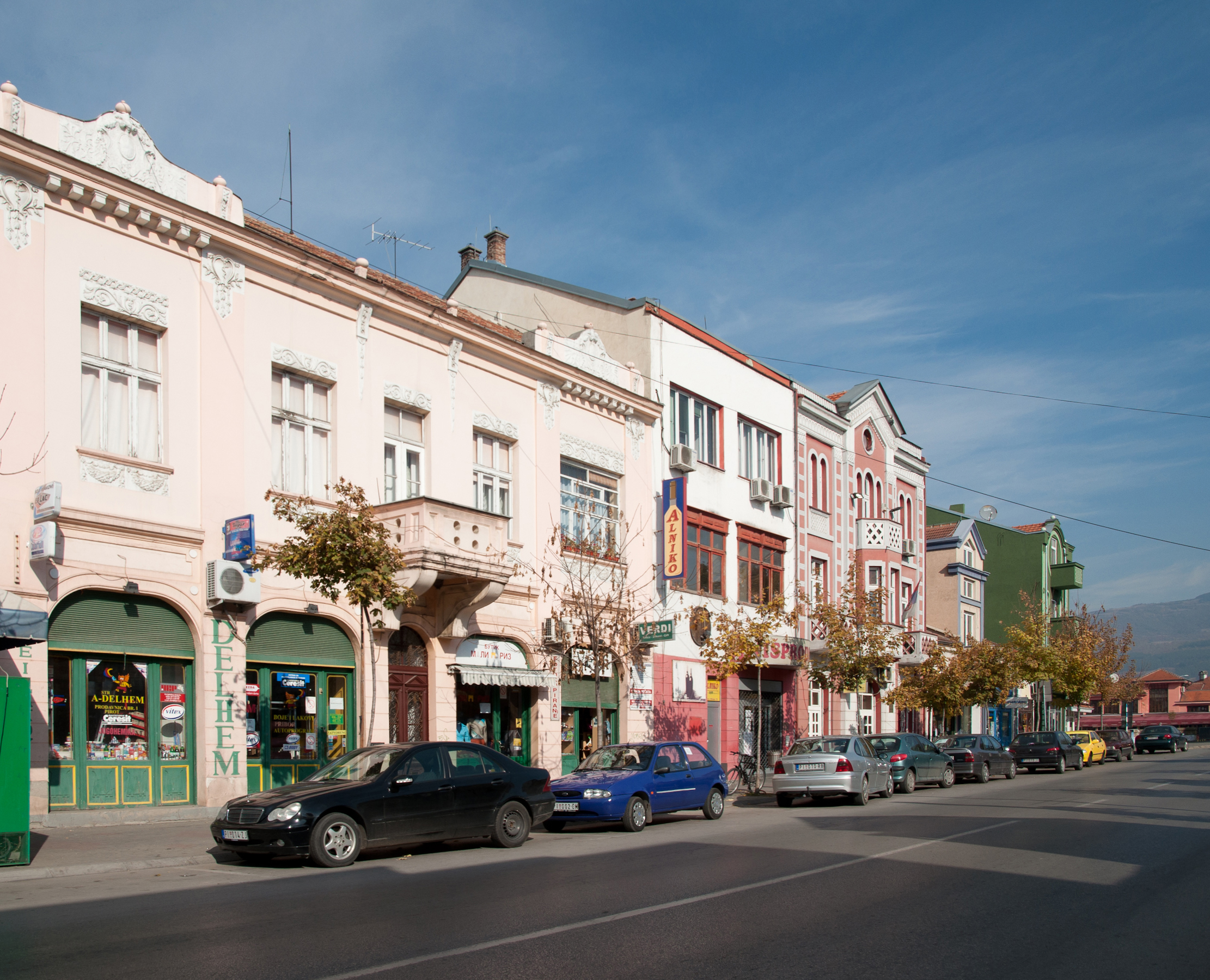 Buildings along Knjaz Miloš street in Pirot, Serbia.